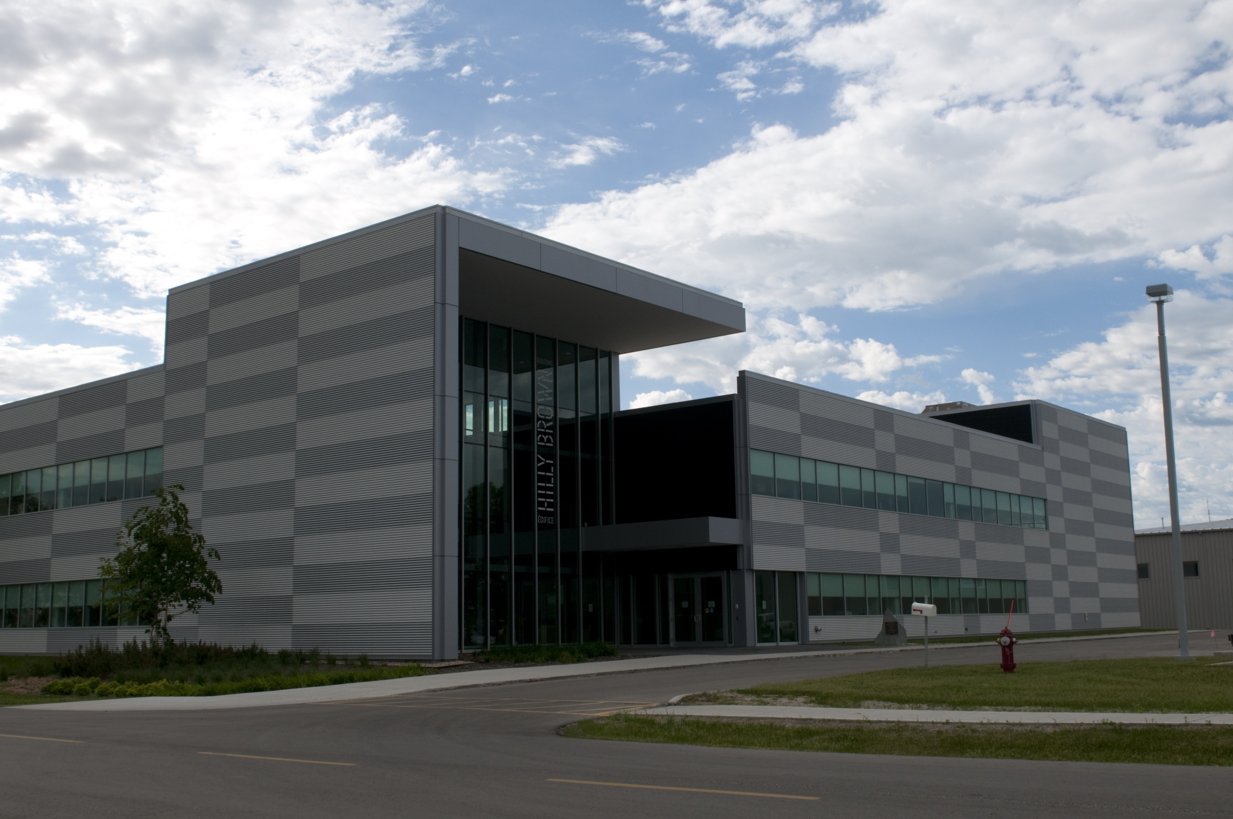 Hill Brown Building, Southport Airport, Manitoba Canada